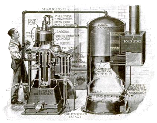 Diagram of the Still engine